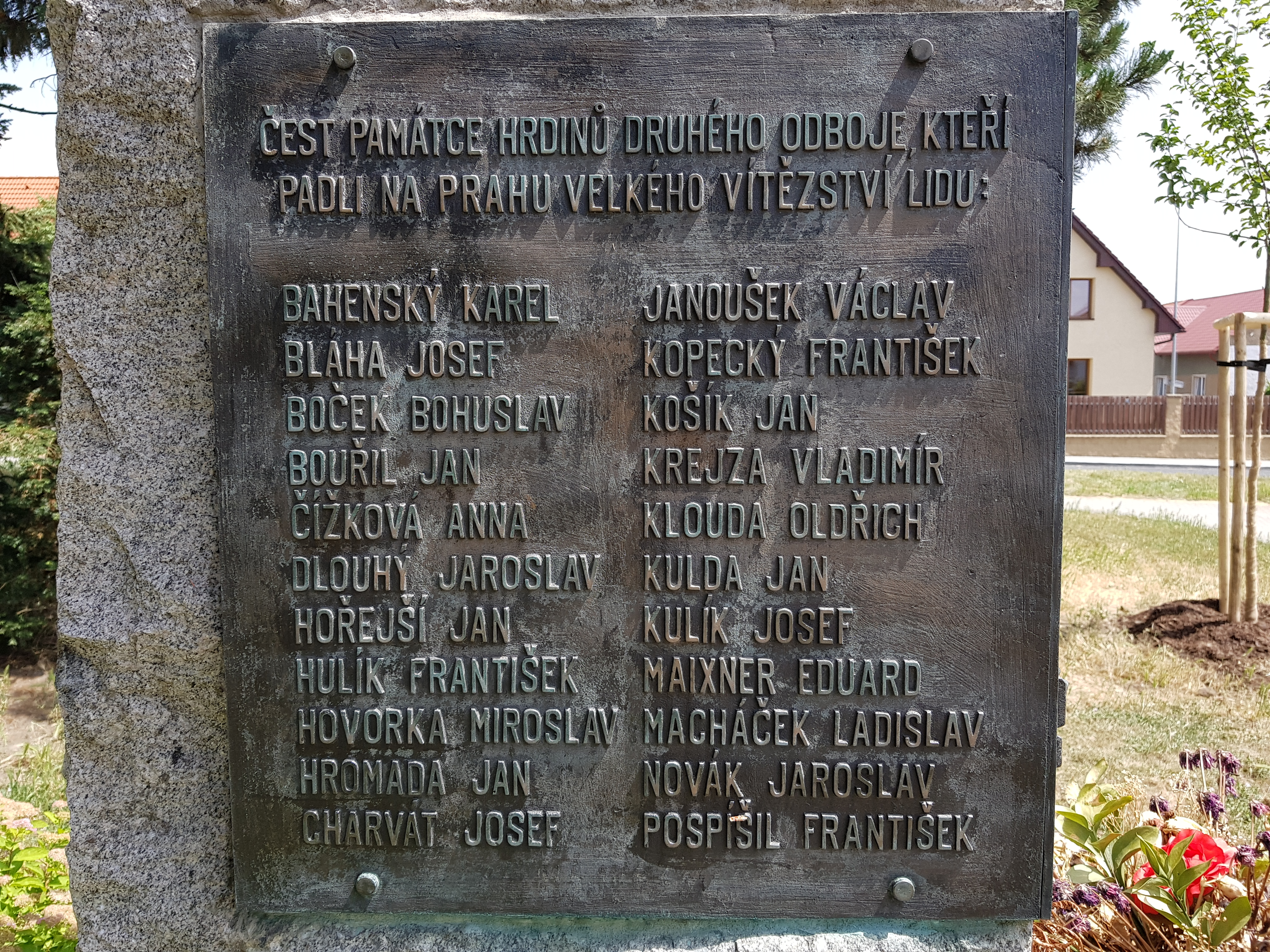 Memorial to the Victims of the WW2 in Prague-Hloubětín, detail